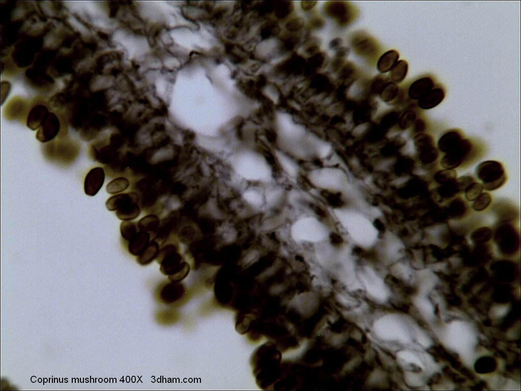 Cross-section of a Coprinus mushroom gill, showing basidia. Photomicrograph of specimen magnified 400 times.